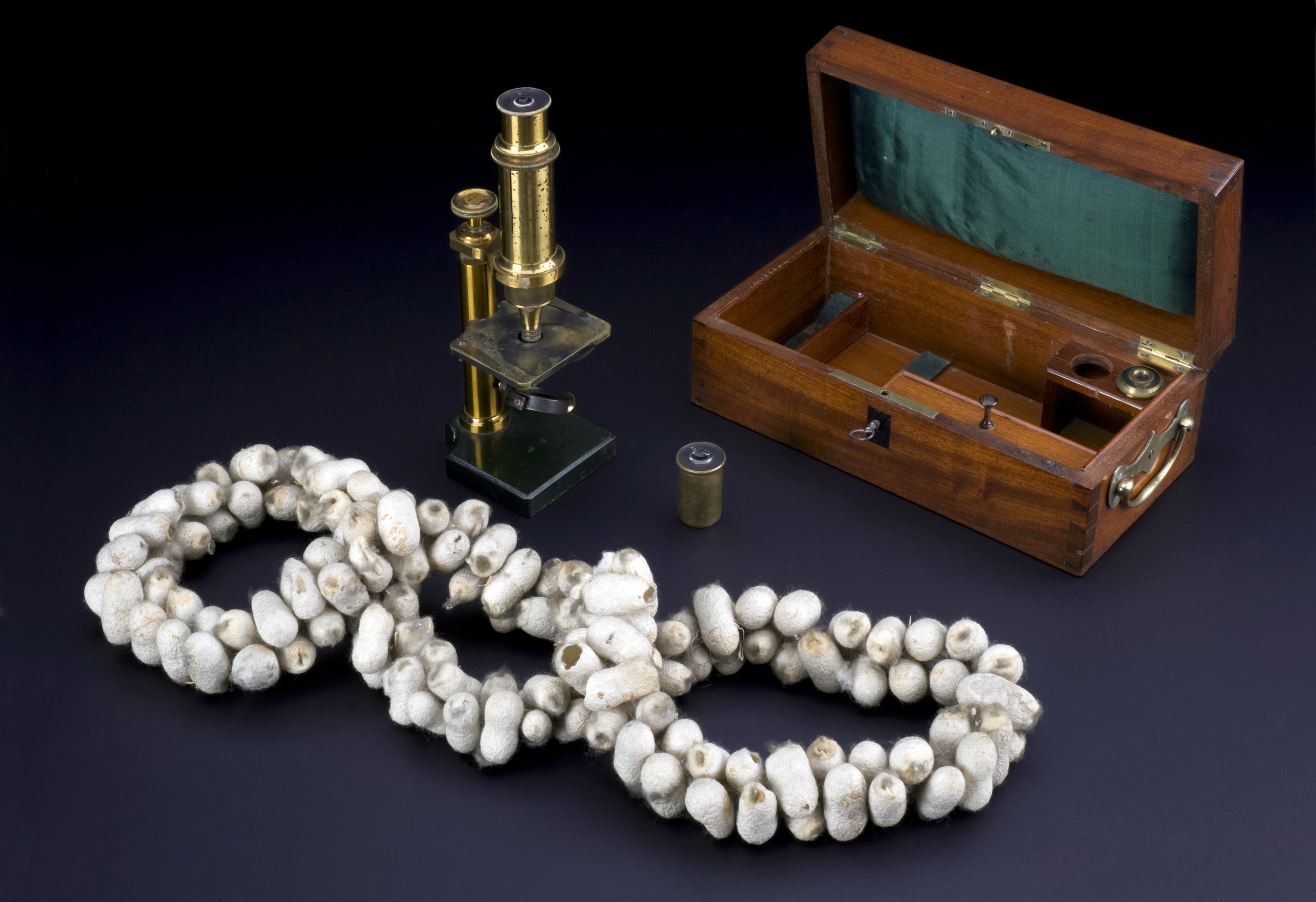 Louis Pasteur (1822-1895), the French chemist and microbiologist, used this compound microscope to study the diseases of silkworms between 1868-1869. The microscope has its own mahogany case which contains two objec-tive lenses and two eyepieces. It is shown with a string of silkworm cocoons (A63336). Pasteur donated this microscope to the family with which he stayed while he was doing this work and Henry Wellcome’s museum purchased it from them in 1926. maker: E Hartnack and Company Place made: Paris, Ville de Paris, Île-de-France, France Wellcome Images Keywords: objective; compound microscope; Microscopy; monocular microscope